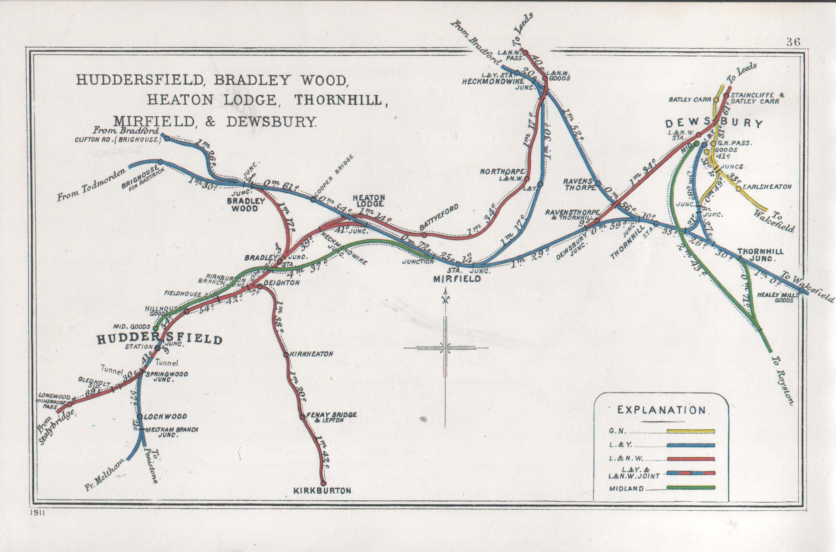 Pre Grouping railway junction around Huddersfield, Bradley Wood, Heaton Lodge, Thornhill, Mirfield & Dewsbury